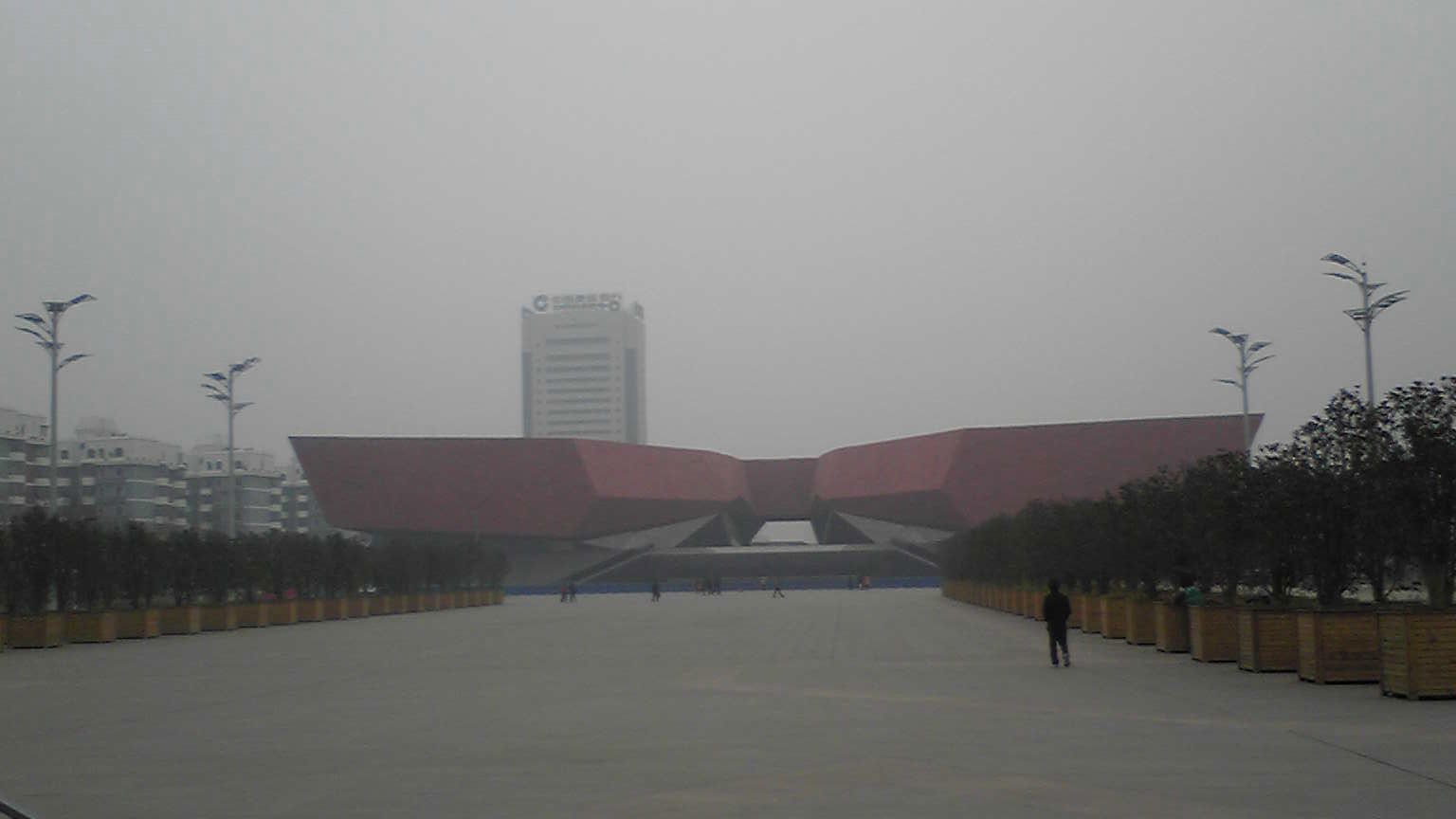 Wuchang Uprising New Memorial